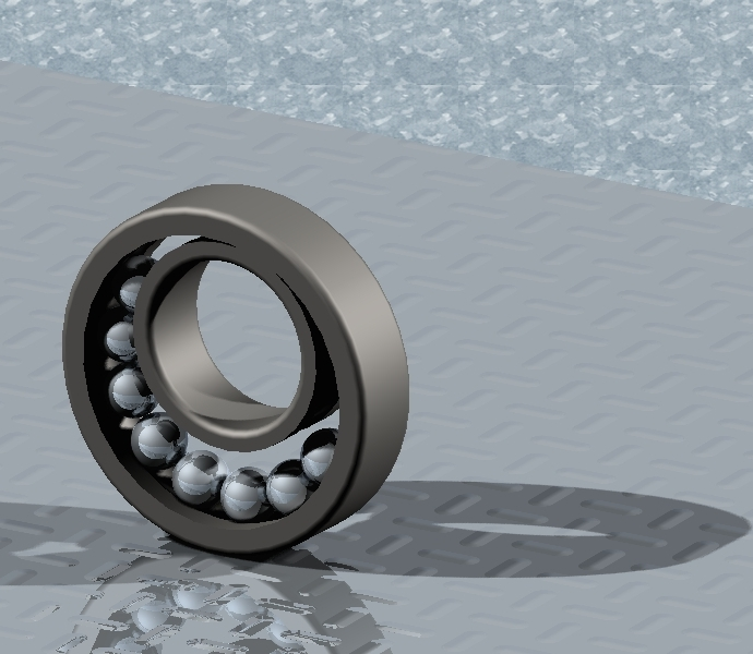 Assembly of a rigid ball-bearing. Image rendered with computer graphics using SolidWorks. (author: ruizo)